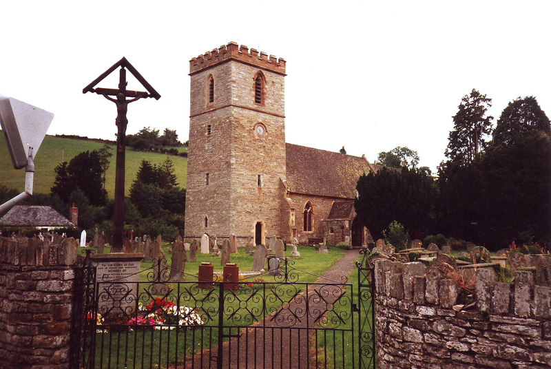 St. Michael and All Angels, Clyro, Wales Famously, a church with a Kilvert connection.